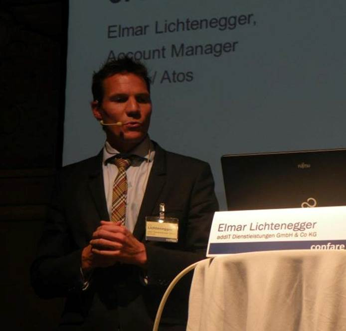 Speak Mobile Enterprise Aplication Platform